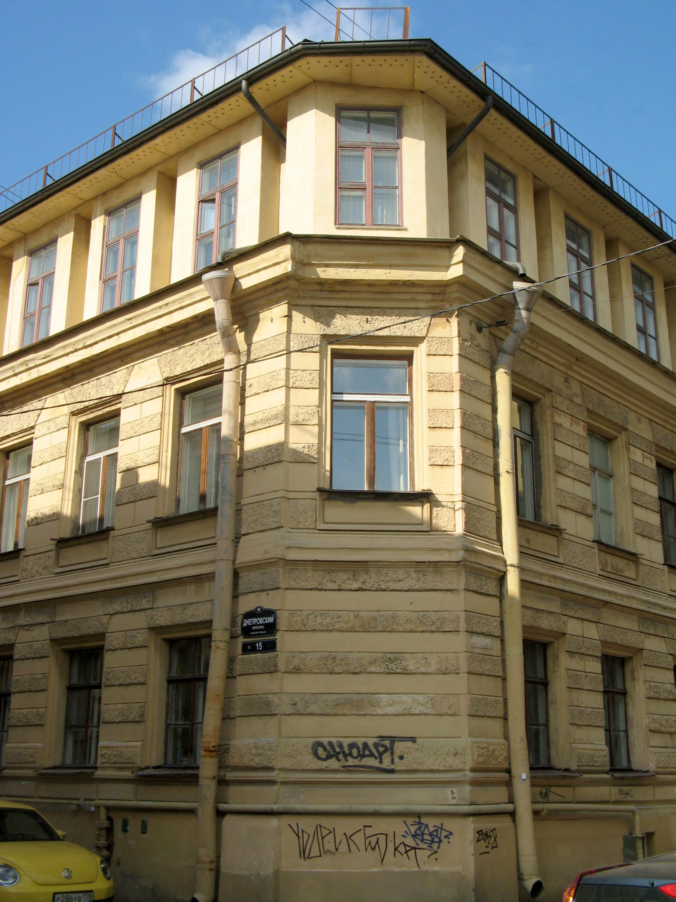 Dneprovsky Lane, St. Petersburg, Russia